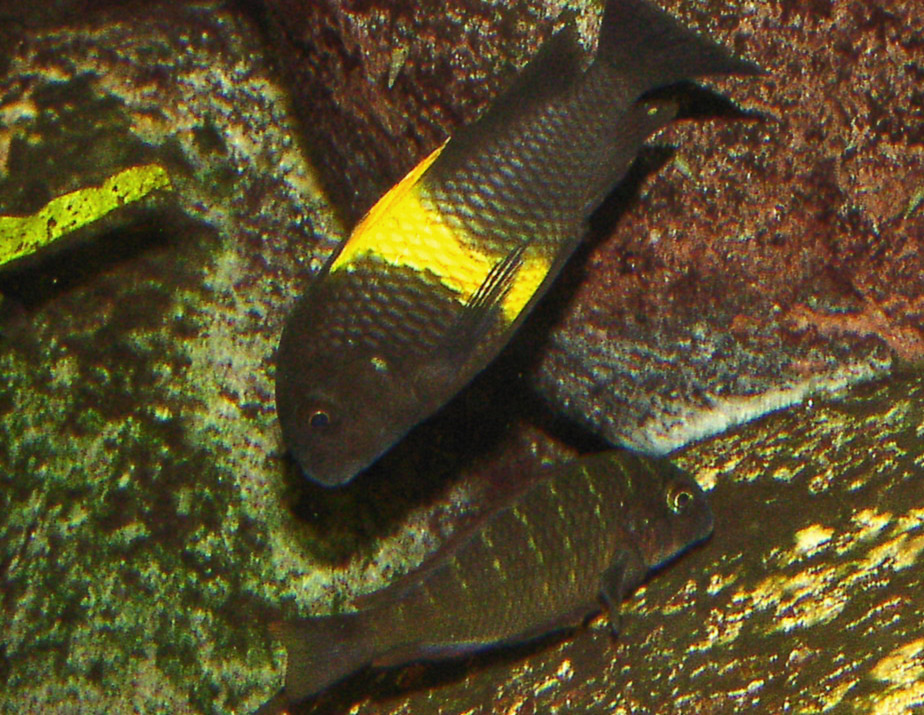 Tropheus spec. "Kiriza" & Tropheus moorii "Kachese"